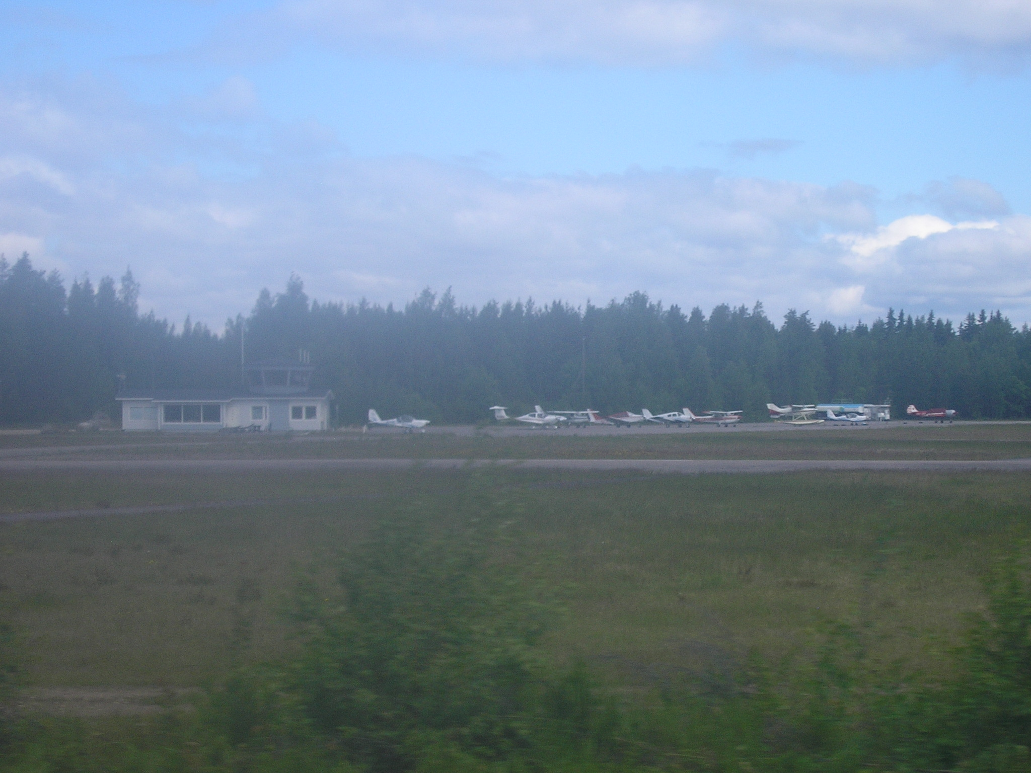 Lahti-Vesivehmaa airfield (EFLA) in Vesivehmaa, Asikkala, Finland